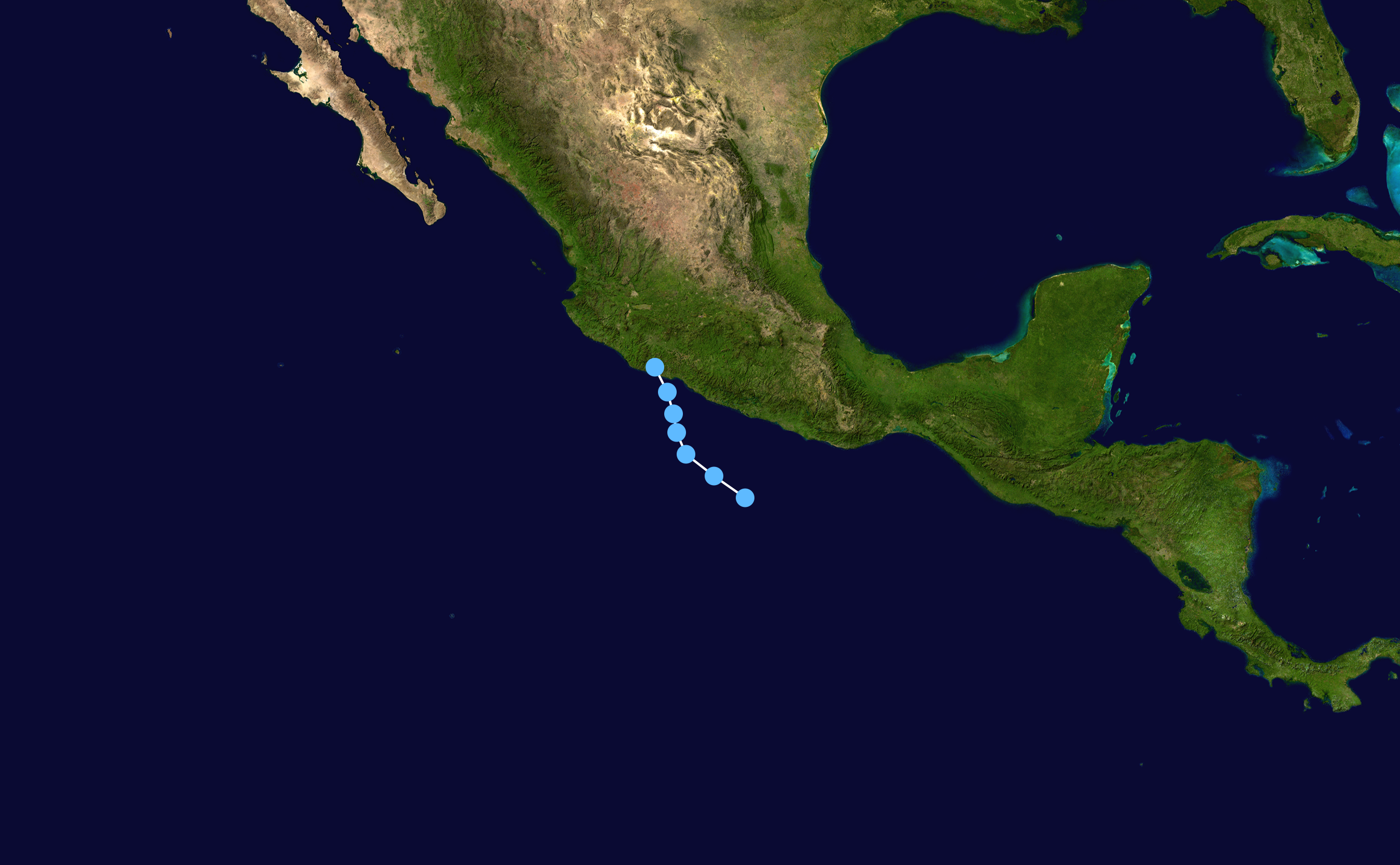 Track map of Tropical Depression Five-E of the 2008 Pacific hurricane season. The points show the location of the storm at 6-hour intervals. The colour represents the storm's maximum sustained wind speeds as classified in the Saffir–Simpson scale (see below), and the shape of the data points represent the nature of the storm, according to the legend below. Saffir–Simpson scale Tropical depression≤38 mph≤62 km/h Category 3111–129 mph178–208 km/h Tropical storm39–73 mph63–118 km/h Category 4130–156 mph209–251 km/h Category 174–95 mph119–153 km/h Category 5≥157 mph≥252 km/h Category 296–110 mph154–177 km/h Unknown Storm type Tropical cyclone Subtropical cyclone Extratropical cyclone / Remnant low / Tropical disturbance / Monsoon depression